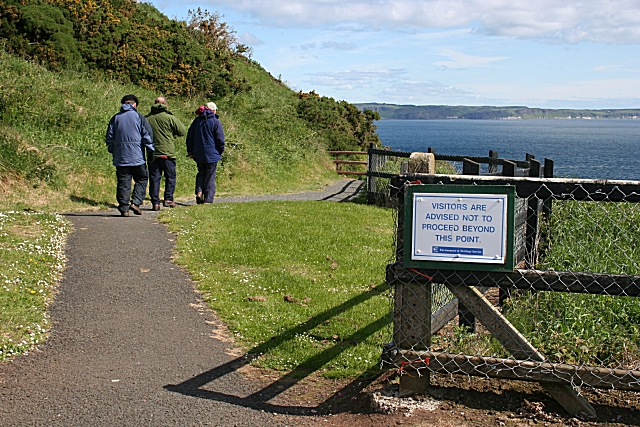 You have been warned! This is the first of several features of the otherwise excellent path to Kinbane Head which are presumably intended to protect the National Trust from being sued if people injure themselves. Reaching the headland involves walking past this sign and climbing over no less than three physical obstructions, the first of which is the left-hand end of the wooden fence in this view.